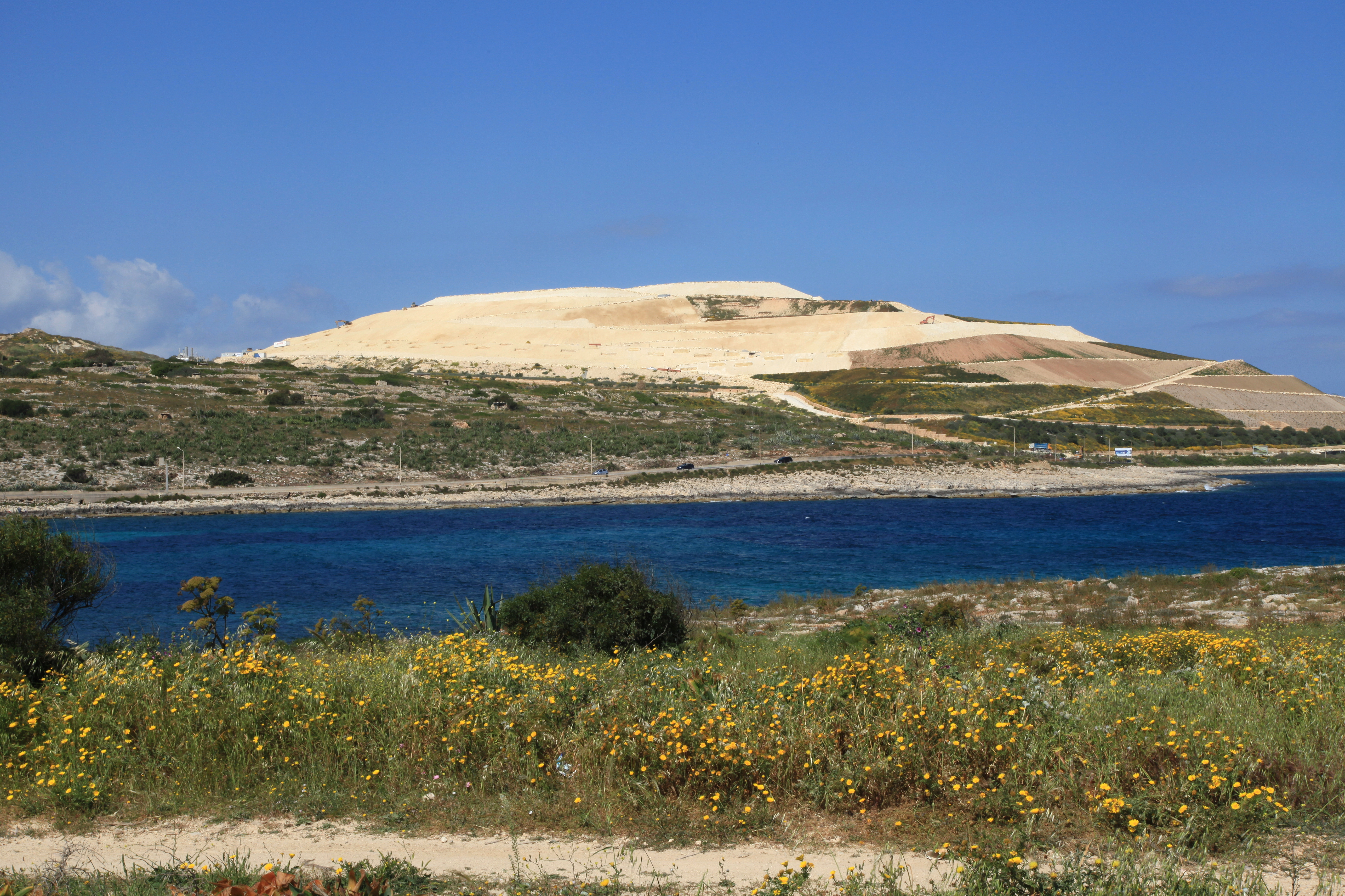 View from St. Mark's Tower peninsula to the Magħtab Landfill at Tul il-Kosta in Naxxar, Malta